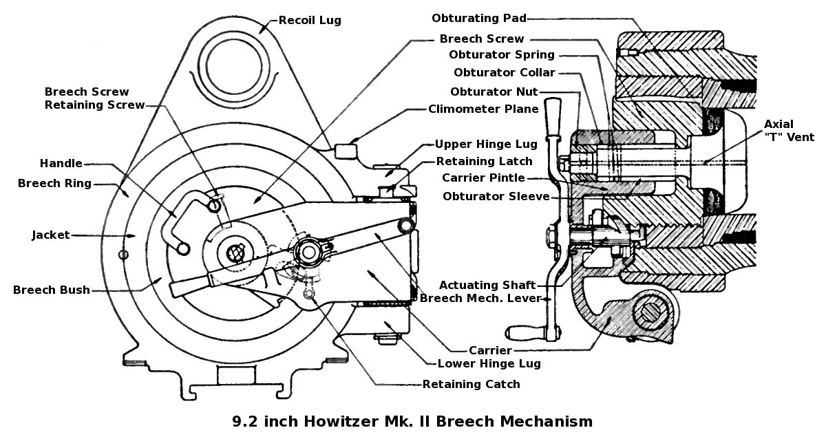 Breech mechanism of 9.2 inch Howitzer Mk II, US service.